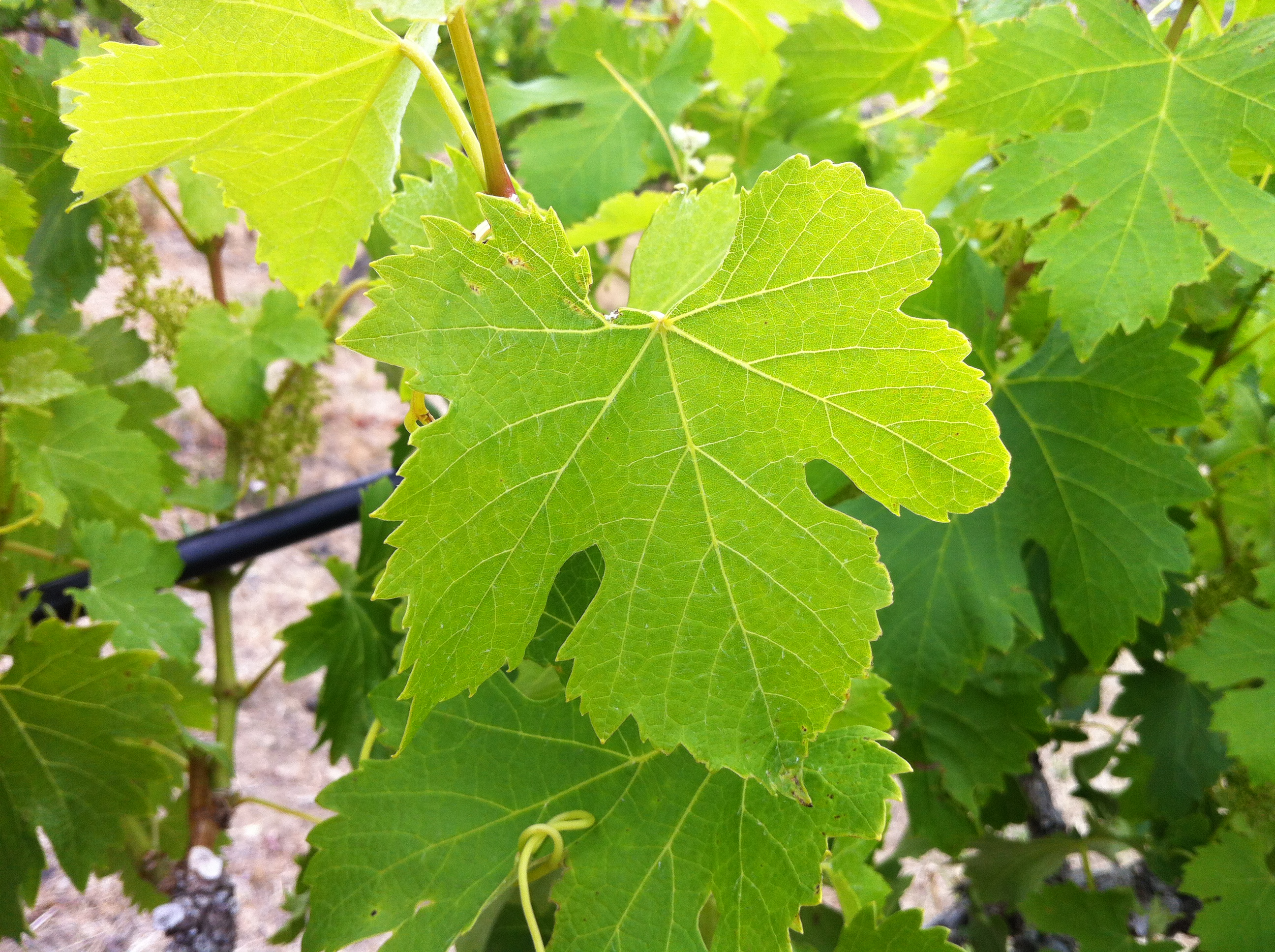 Close up of Viognier leaf